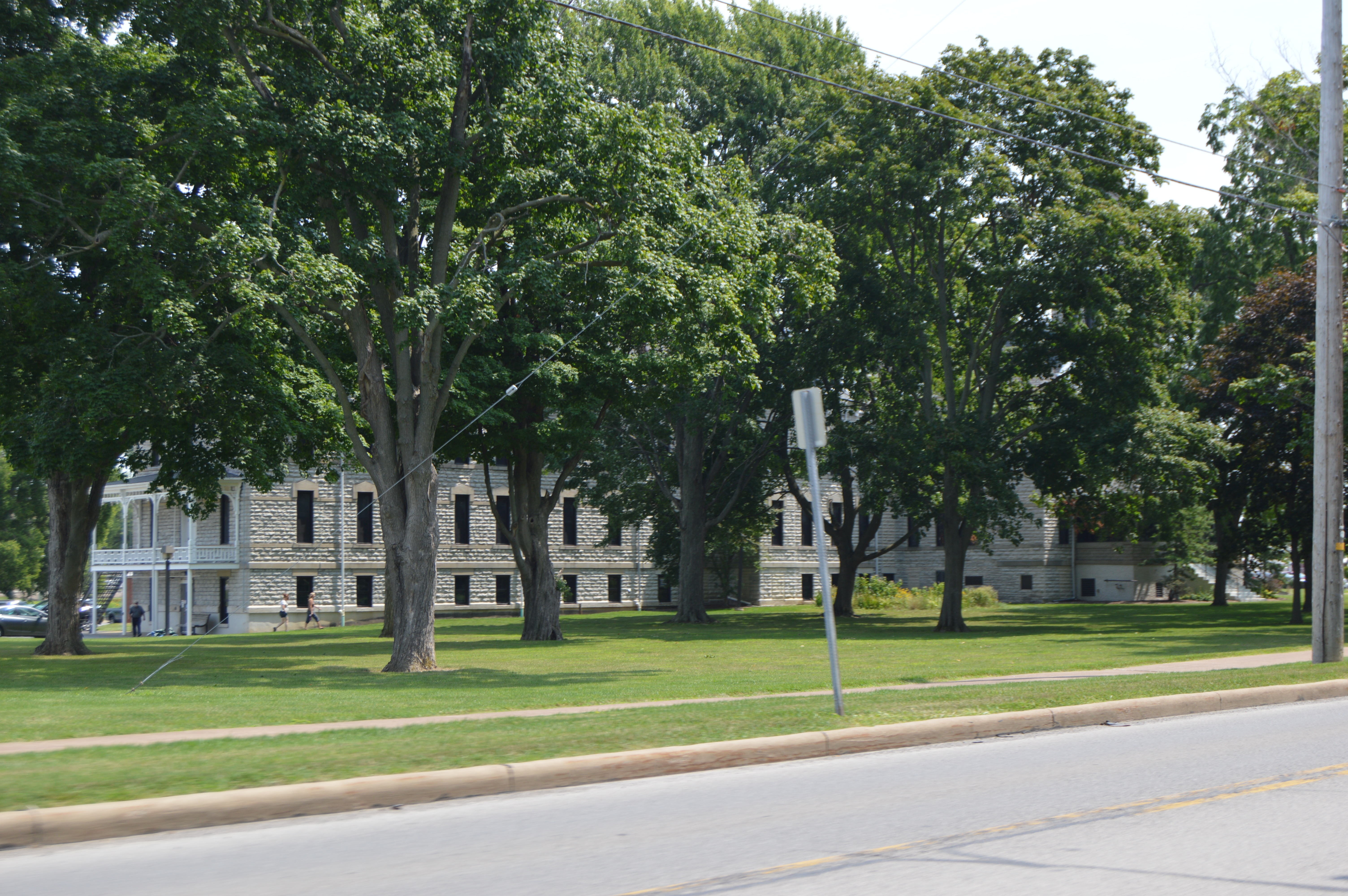 Roadside view of the front of the Erie County Infirmary, located on Columbus Road south of Sandusky in Perkins Township, Erie County, Ohio, United States. Built in 1886, it is listed on the National Register of Historic Places.